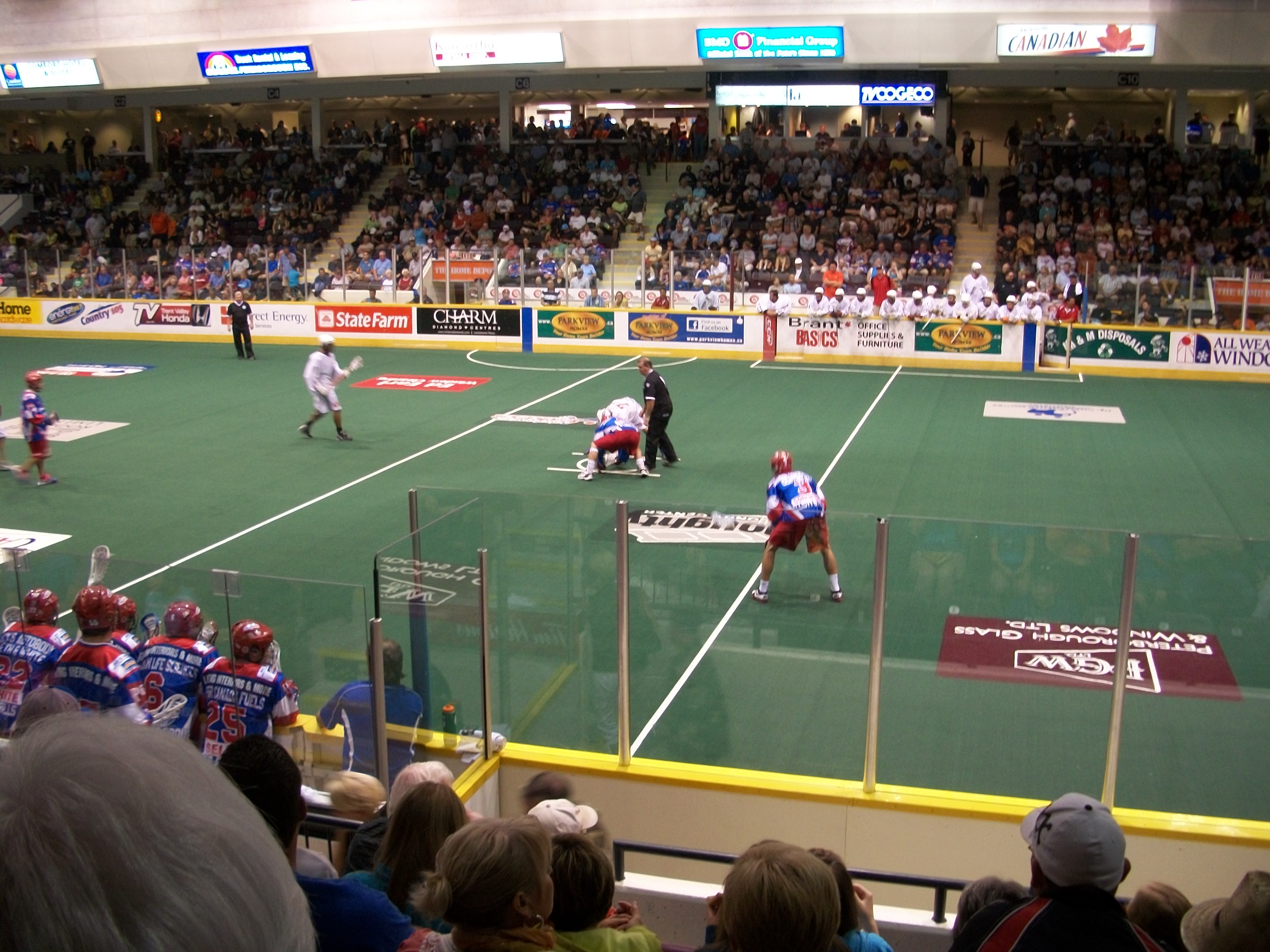 Opening Face-off between the Peterborough Lakers and the Six Nations Chiefs of game 7 of the Major Series Lacrosse semi-finals at the Peterborough Memorial Centre. Dated 15-AUG-2011.